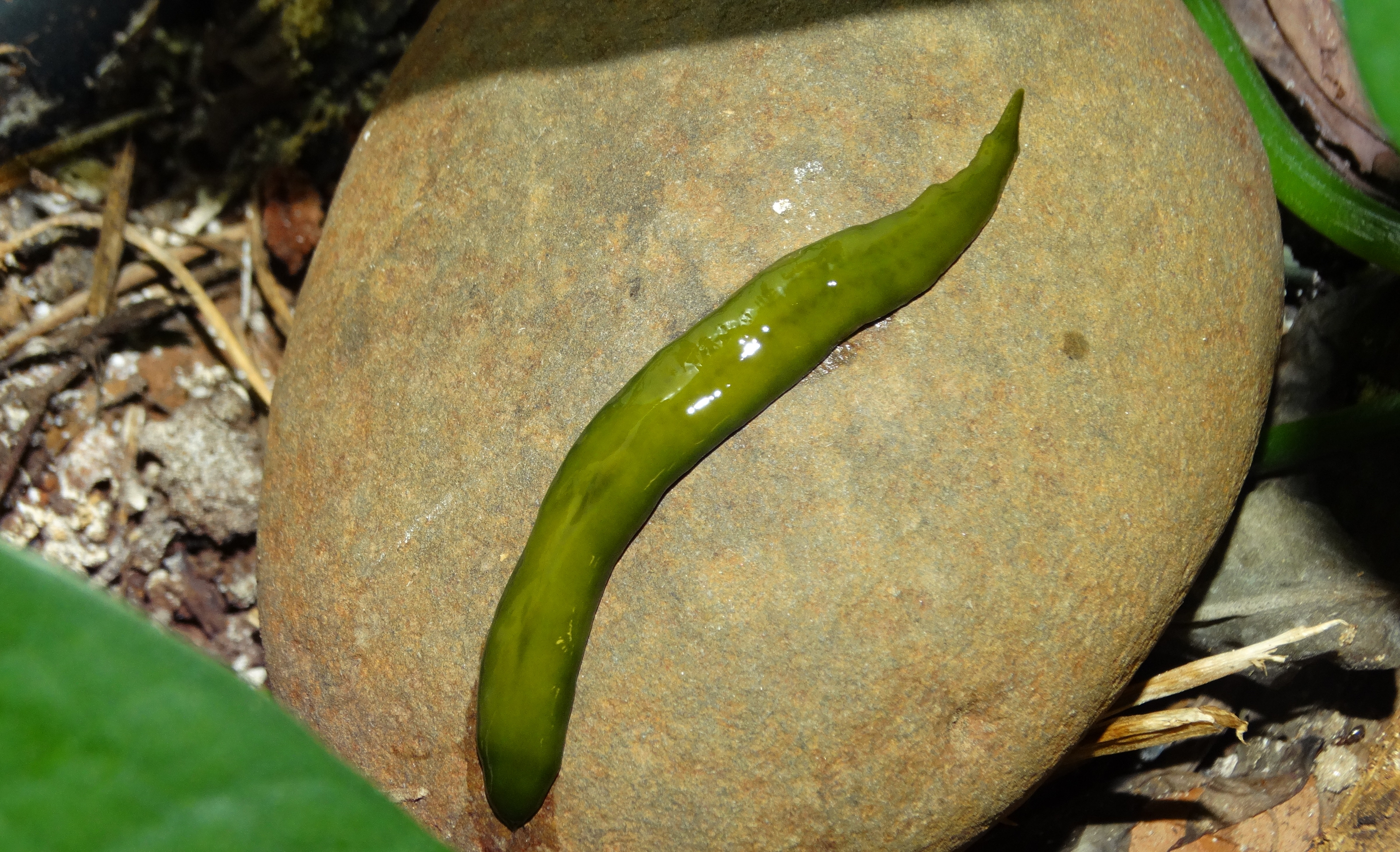 Obama ladislavii